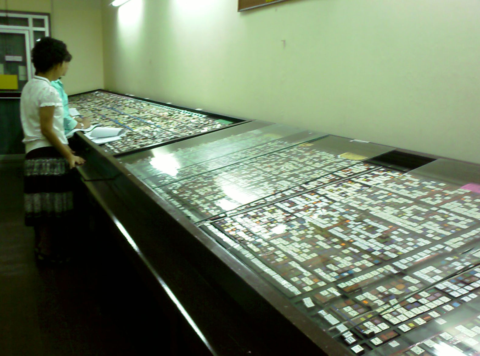 Mechanical teaching timetable in Room 123, Triam Udom Suksa School. Designed by ML Pin Malakul in 1937.